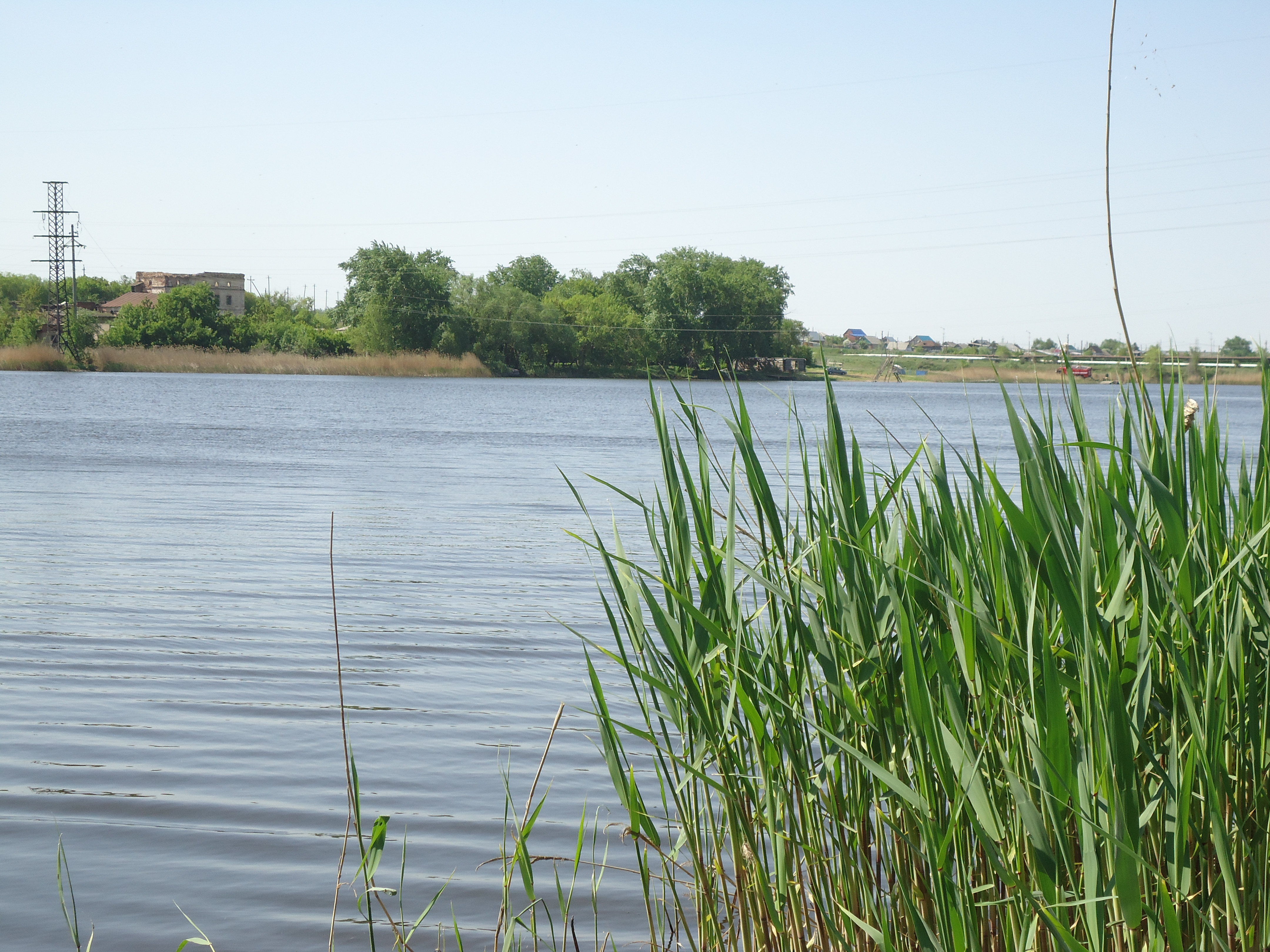 The water area of the Uy River in the Chelyabinsk Region